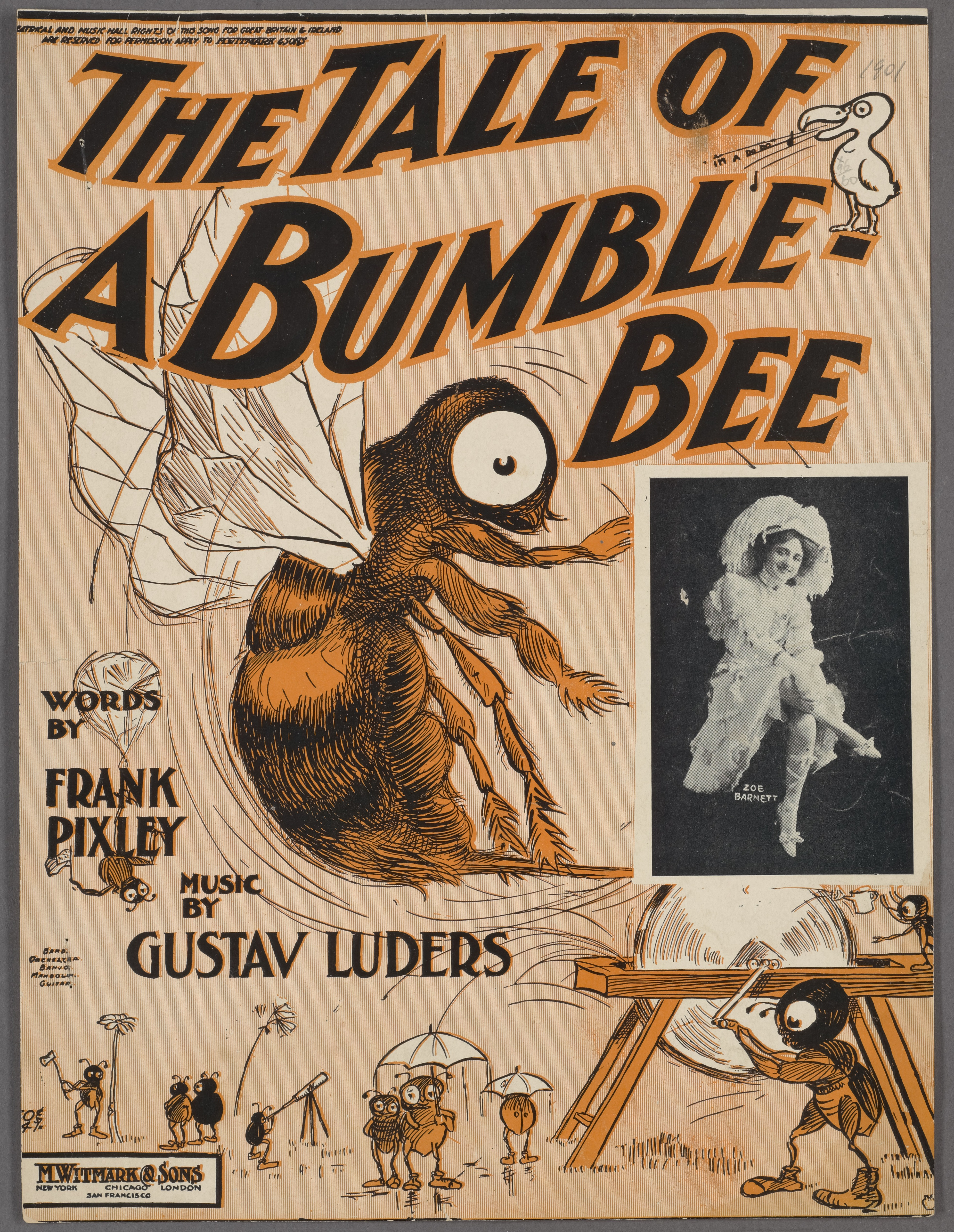 On cover: Photograph of Zoe Barnett. On cover: A bee sharpening its stinger. [illustration] Statement of responsibility : words by Frank Pixley ; music by Gustav Luders.